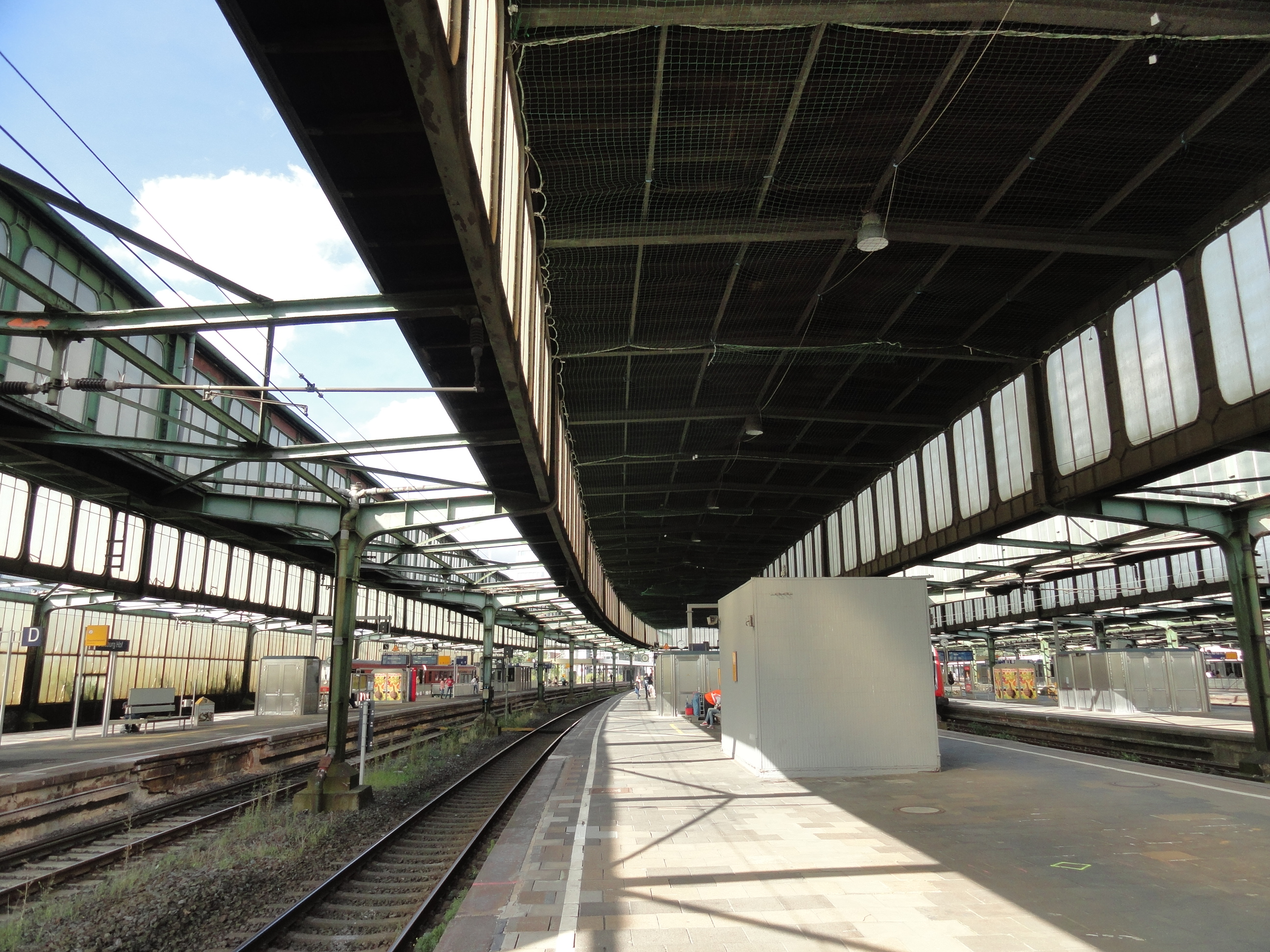 Inside view from one of the six historic, free-floating platform canopies (built from 1931-34, with recourse to Roman/early Christian basilicas with clerestory windows) and an outlook from south to north.